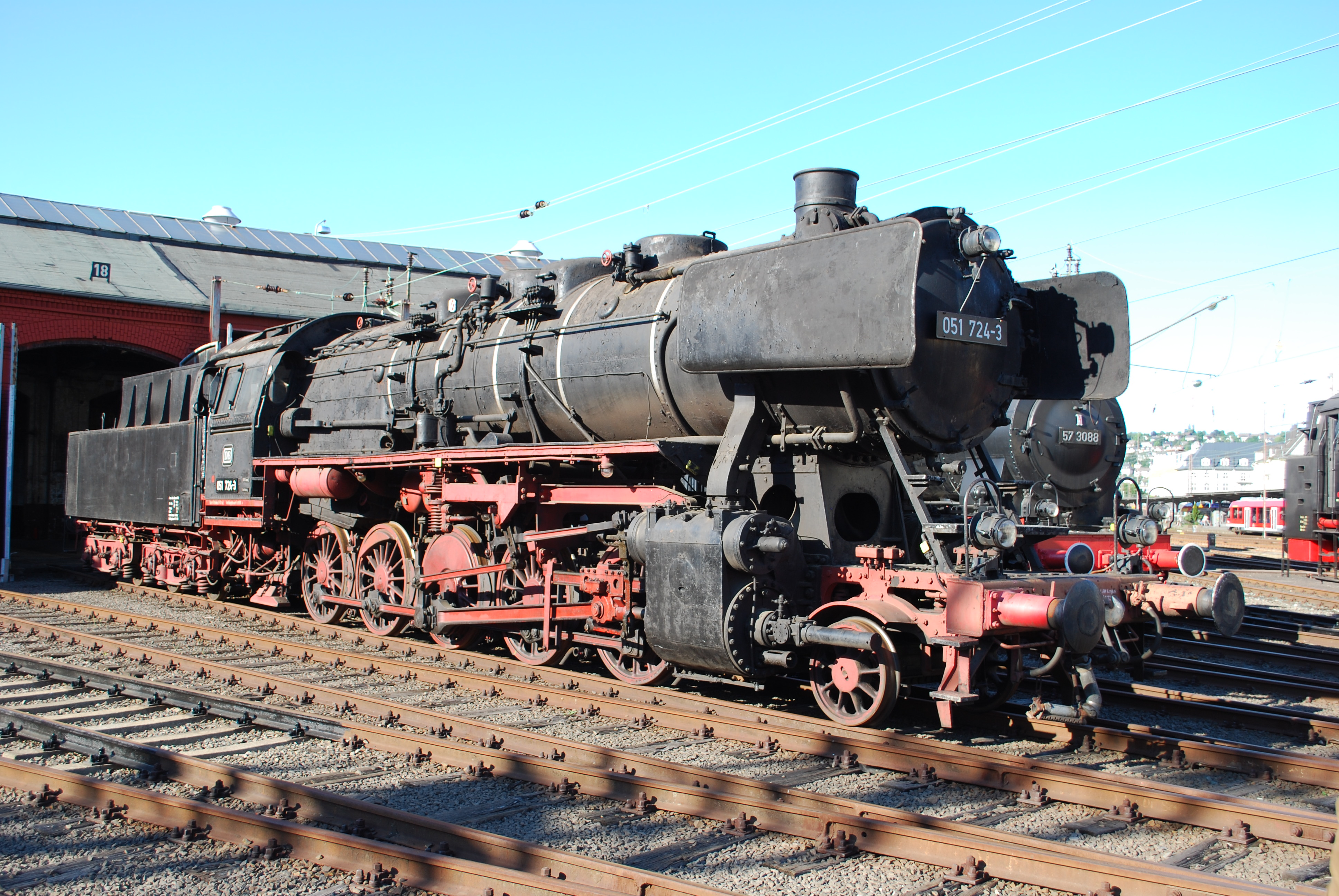 DRB Class 50 ÜK "Übergangskriegslokomotive" 051 724 (DRG 50 1724), built 1941. With 2'2'T26 tender. The steam locomotives were built 1939-1942 and steam locomotives DRB Class 50ÜK were built 1942-44, 3159 steam locomotives for Germany (aside from post-war builds - 7 in West Germany, 80 in East Germany 1956-60, 50 in Poland, 282 in Romania 1947-59 and 10 in France 1945-46. At Siegen Depot Museum.